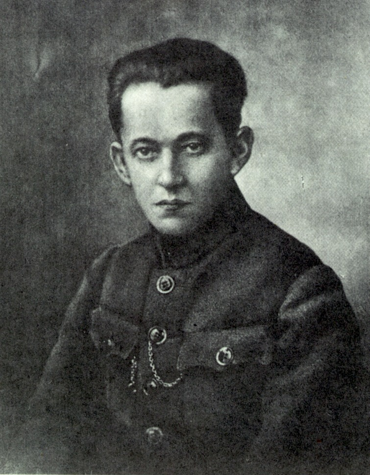 Vincas Krėvė-Mickevičius, Lithuanian writer, poet, playwright and philologist